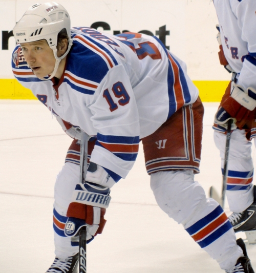 Ruslan Fedotenko - New York Rngers